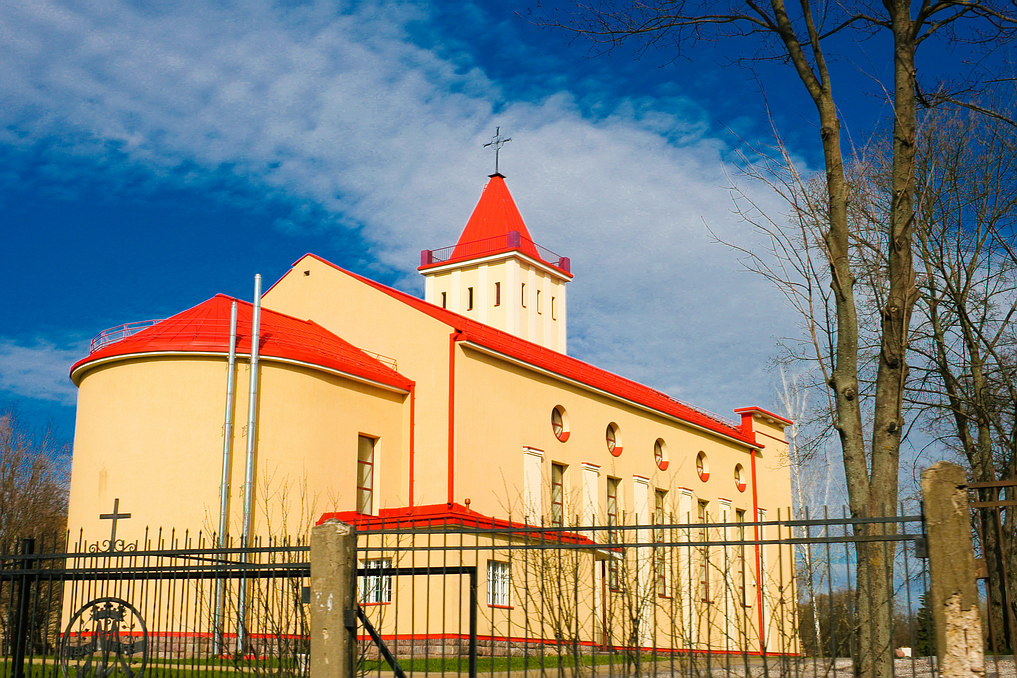 Roman Catholic church in Naujoji Vilnia, Vilnius, Lithuania.